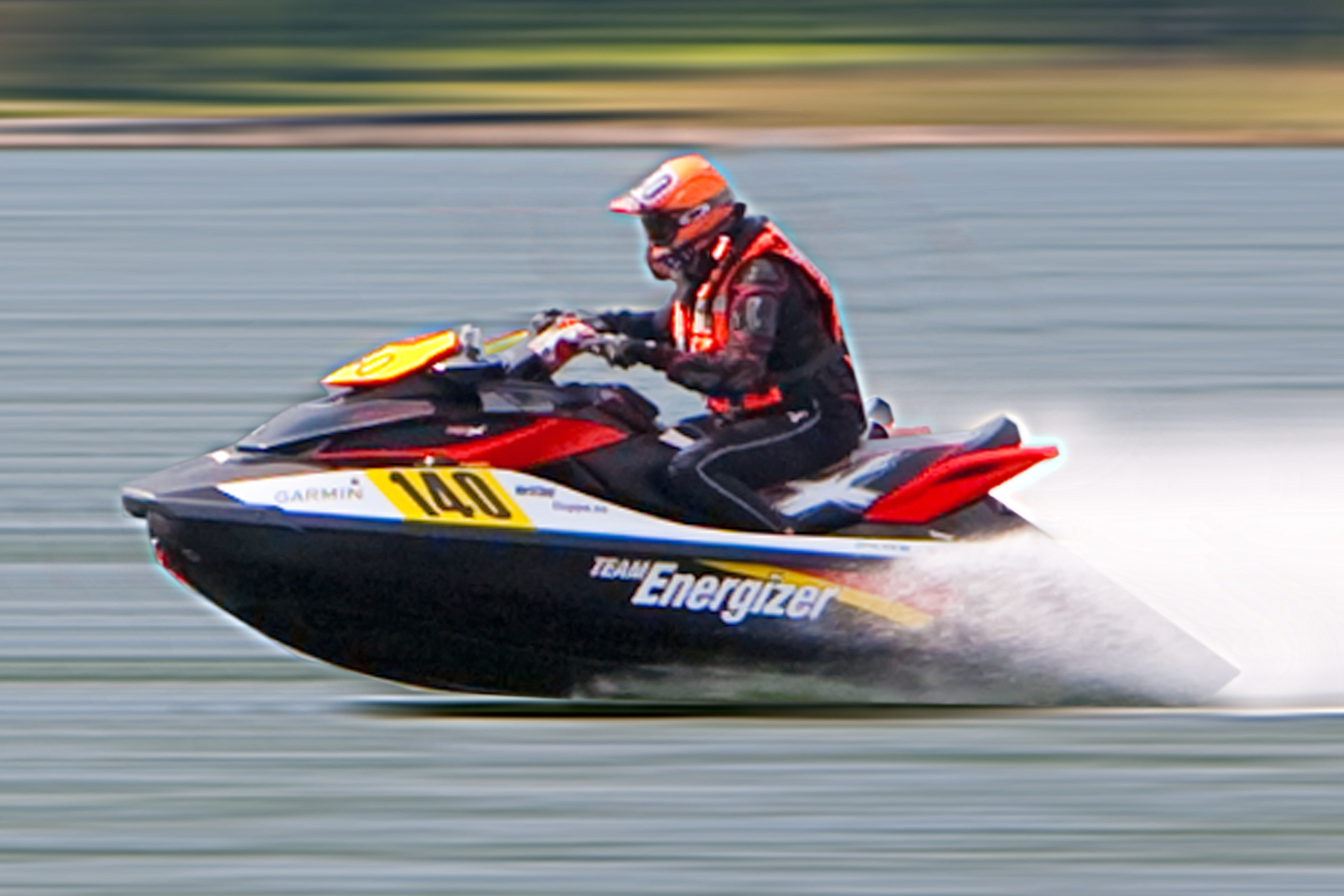 Roslagsloppet 2010 included for the first time jet skis, water scooters and other personal watercraft